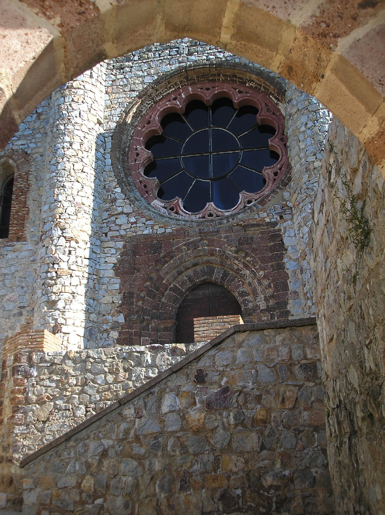 Calatrava Castle. Church rose window. Spain.